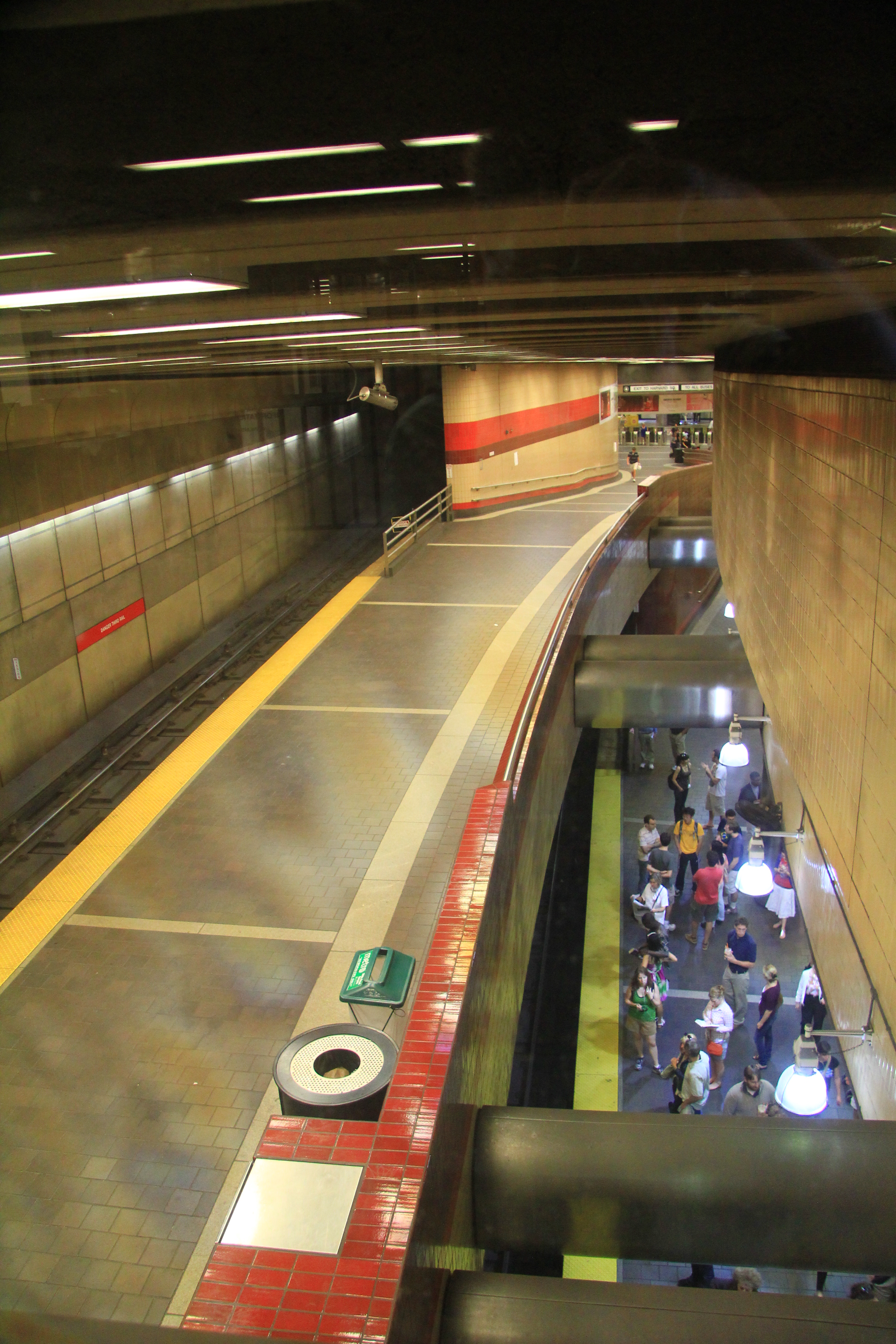 The MBTA Red Line platforms at Harvard Square are stacked, with the outbound platform on top.